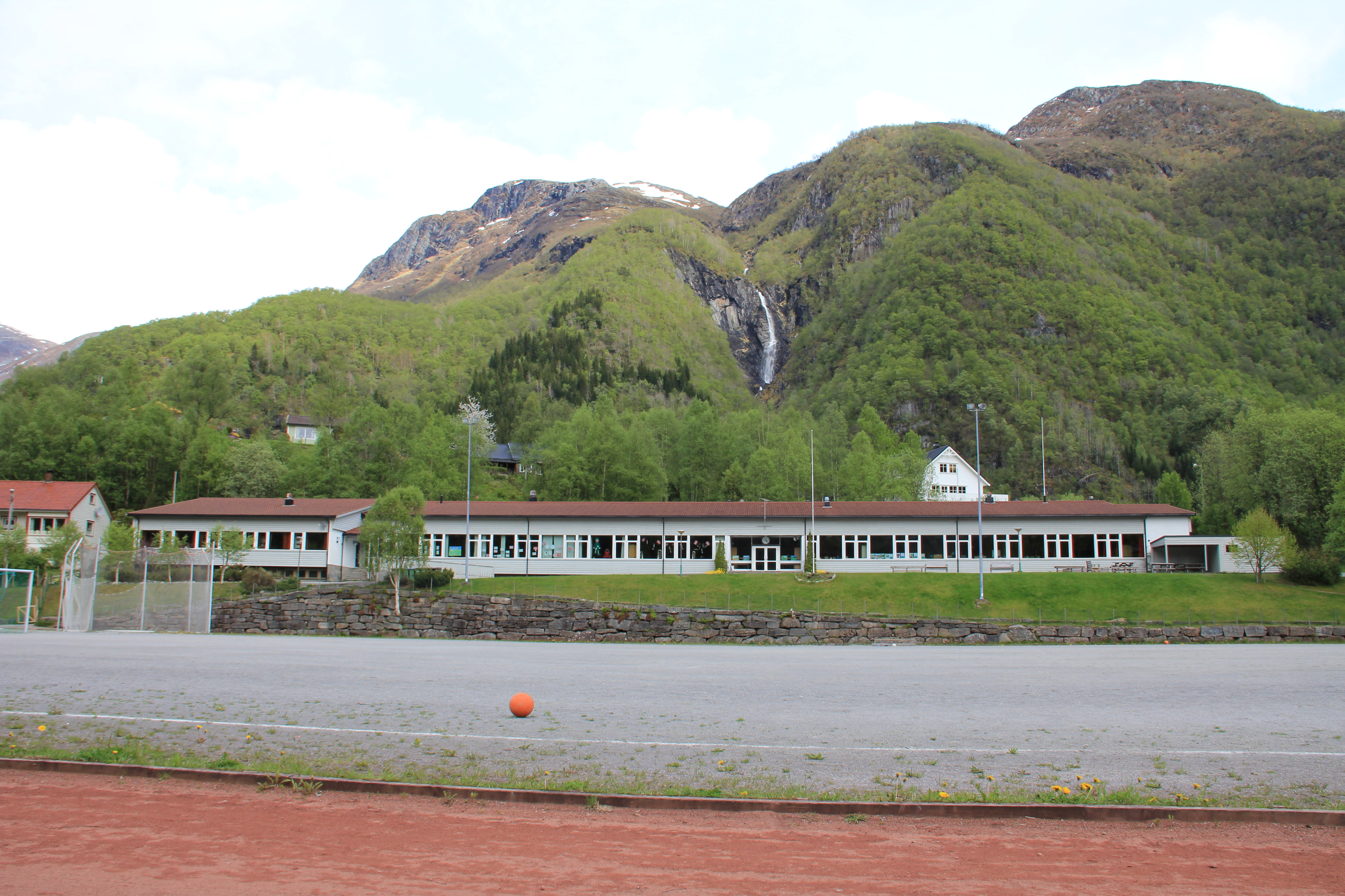 Hyen skole, elementary school in Hyen, Gloppen